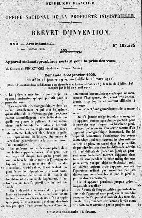 French patent of Aeroscope from 1909.